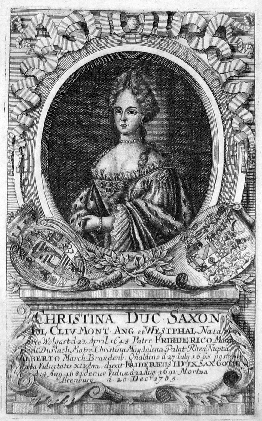 Christine of Baden-Durlach (1645-1705), Duchess of Saxe-Gotha-Altenburg